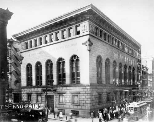 The First National Bank Building (Pittsburgh) before 1912 renovations, 511 Wood Street, Pittsburgh, Pennsylvania. Architect: D. H. Burnham & Company.